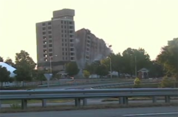 June 2006 demolition of the 12-story Tencza Apartment building in Arlington, Virginia. Screenshot from video by User:Aude, which can be viewed on YouTube